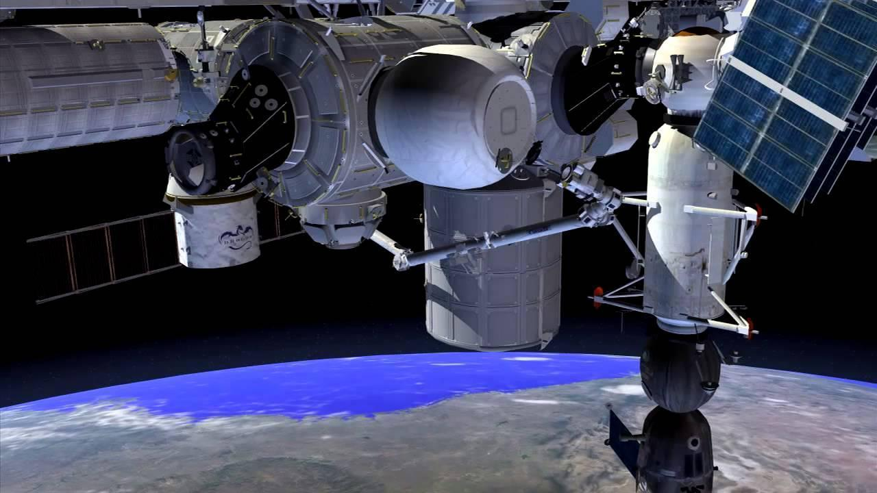 Artist rendering of the BEAM module (balloon structure at top center) berthed to the Tranquility node of ISS.